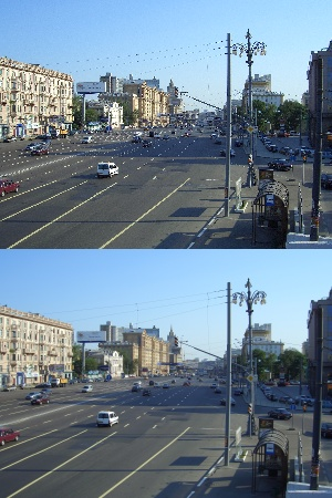 An illustration for aliasing effect connected with decimation. Top - source image. Bottom left - resized image that was properly filtered. Bottom right - resized image without filtering (illustrating aliasing). Photo taken with Rovershot Z50 digital camera, collage created with GIMP. Moscow, Garden Ring